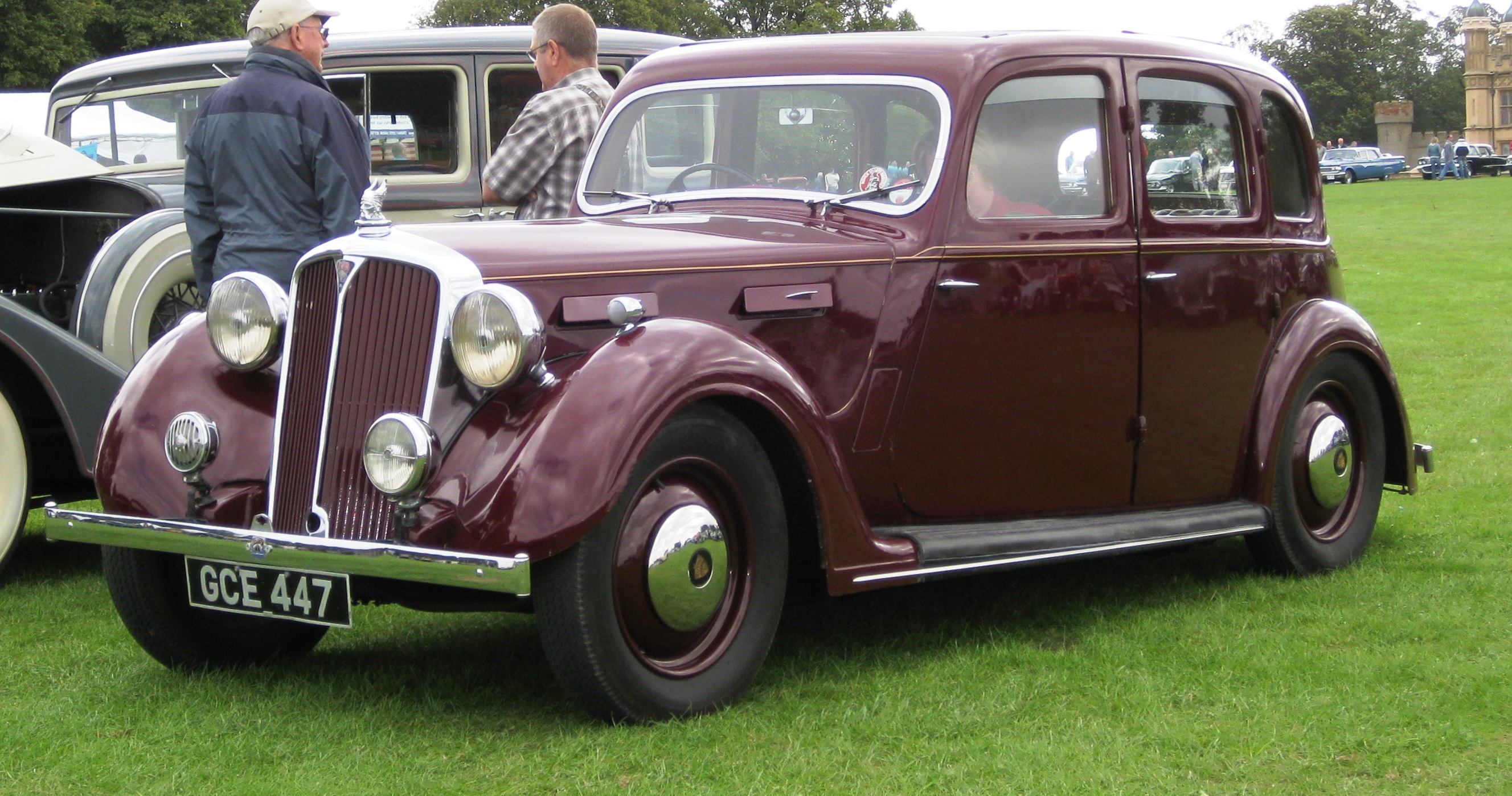 Rover 16 at Knebworth classic car show